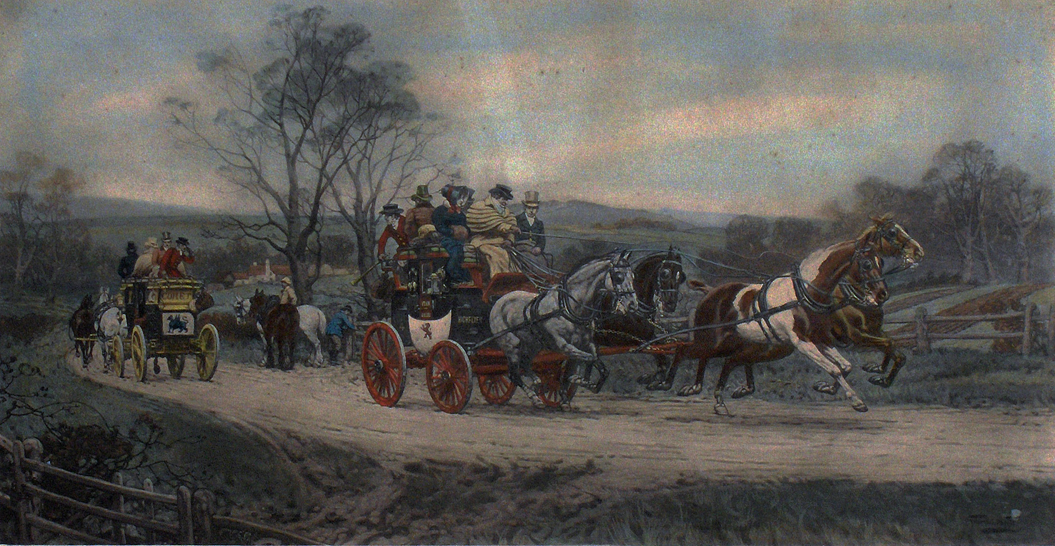 "Behind time", anonymous old English engraving; 19th century; private collection